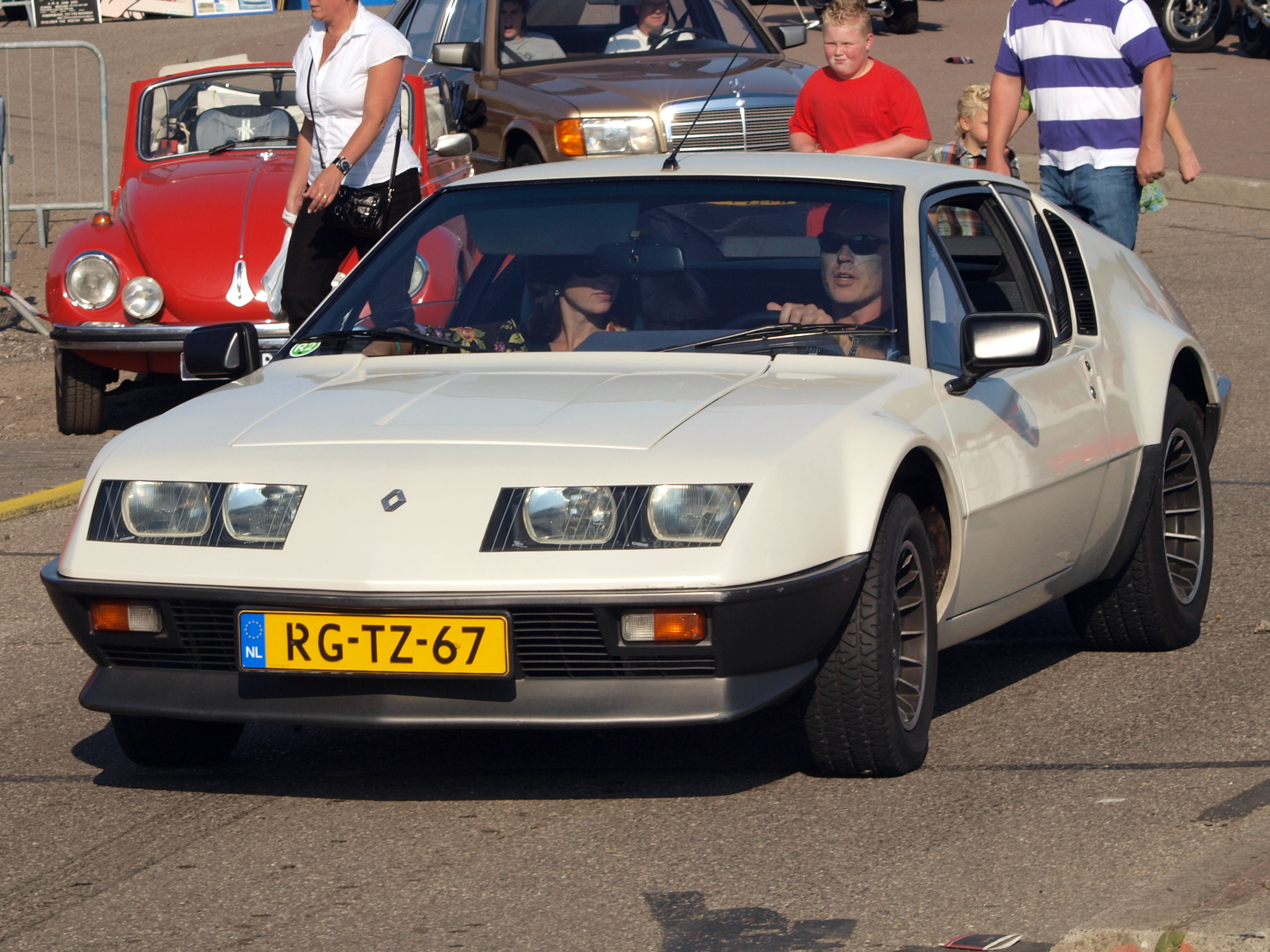 Photographed at the Nationaal Oldtimer Festival Zandvoort 2009, The Netherlands. OLYMPUS DIGITAL CAMERA